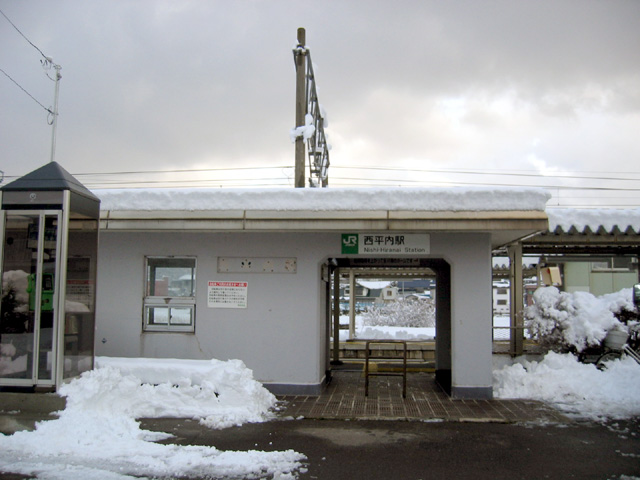 Nishi-Hiranai Station